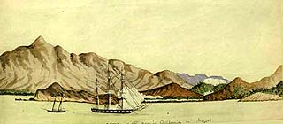 The Battle of Mulege. USS Dale bombarding Mulege, Mexico while a landing force operates on shore. A captured Mexican schooner is also depicted. Watercolor by William H. Meyers, an artist which served aboard USS Dale during the engagement.